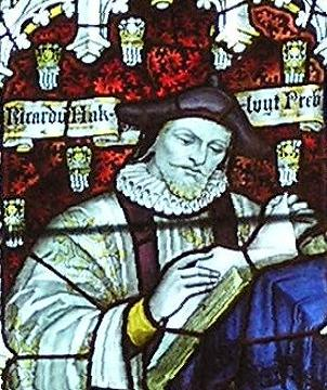 English writer Richard Hakluyt (c. 1552 or 1553 – 23 November 1616) pictured in a stained glass window in the West Window of the South Transept of Bristol Cathedral.